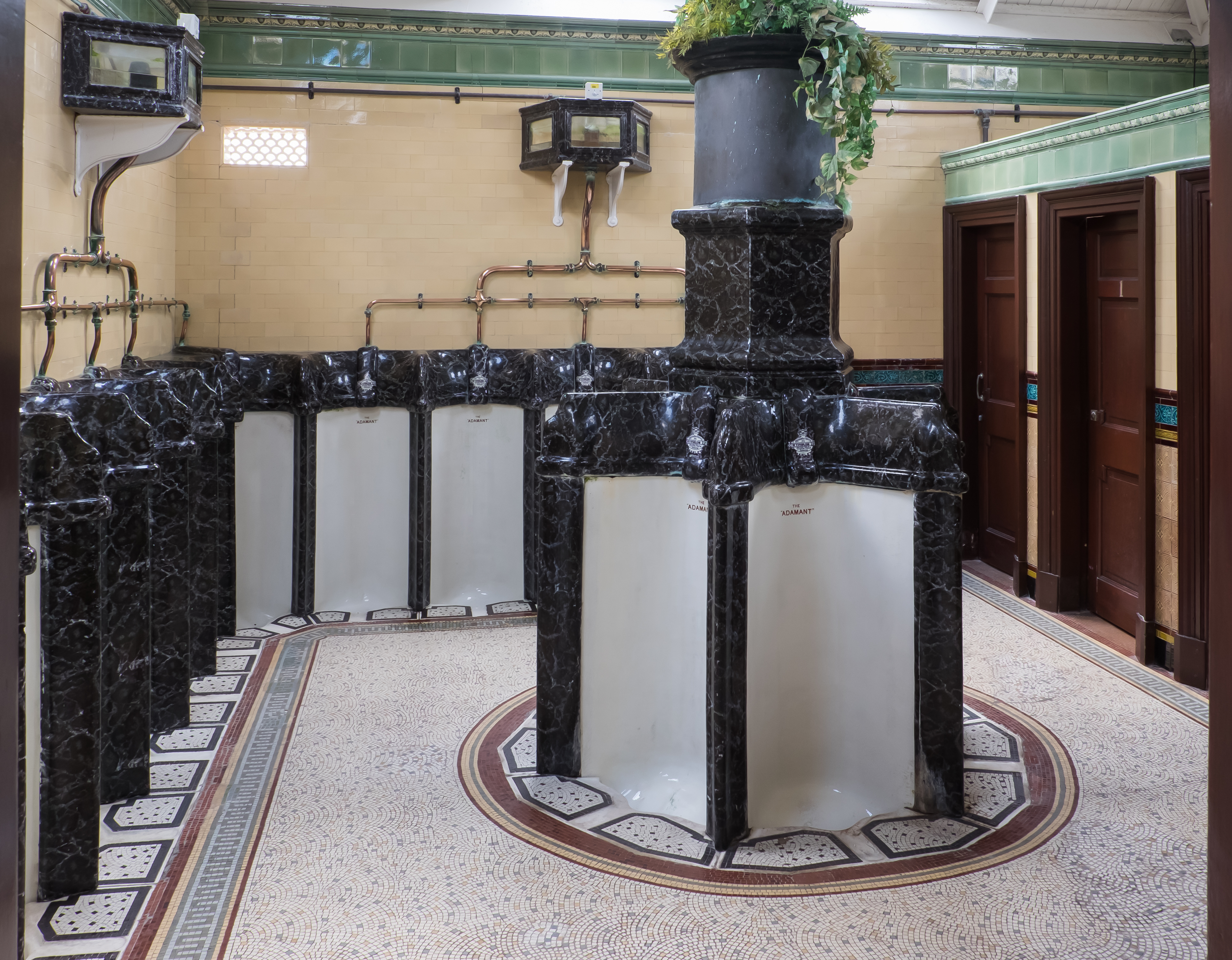 Rothesay Victorian Toilets in Rothesay, Bute. These facilities, commissioned in 1899, are part of a Grade A Listed Building in Scotland.